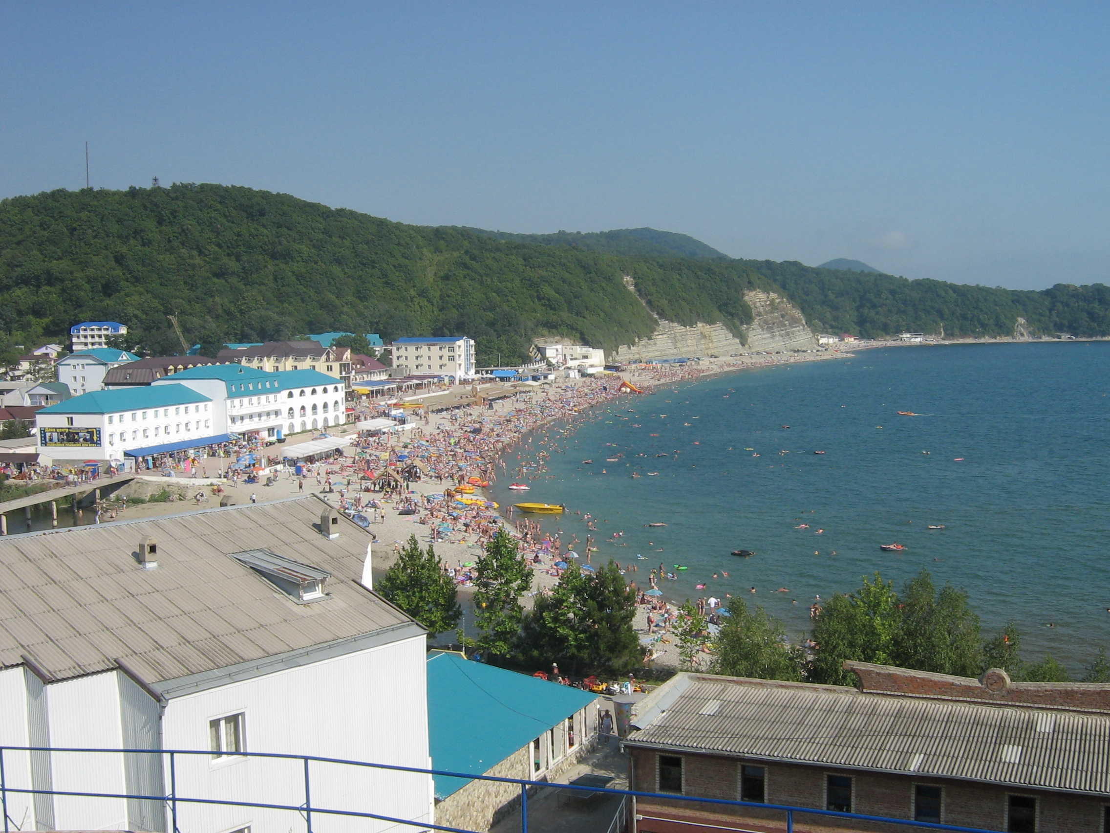 Novomihaylovka - town in Russia, Krasnodarskiy Kray, Tuapsinskiy Rayon (2007)